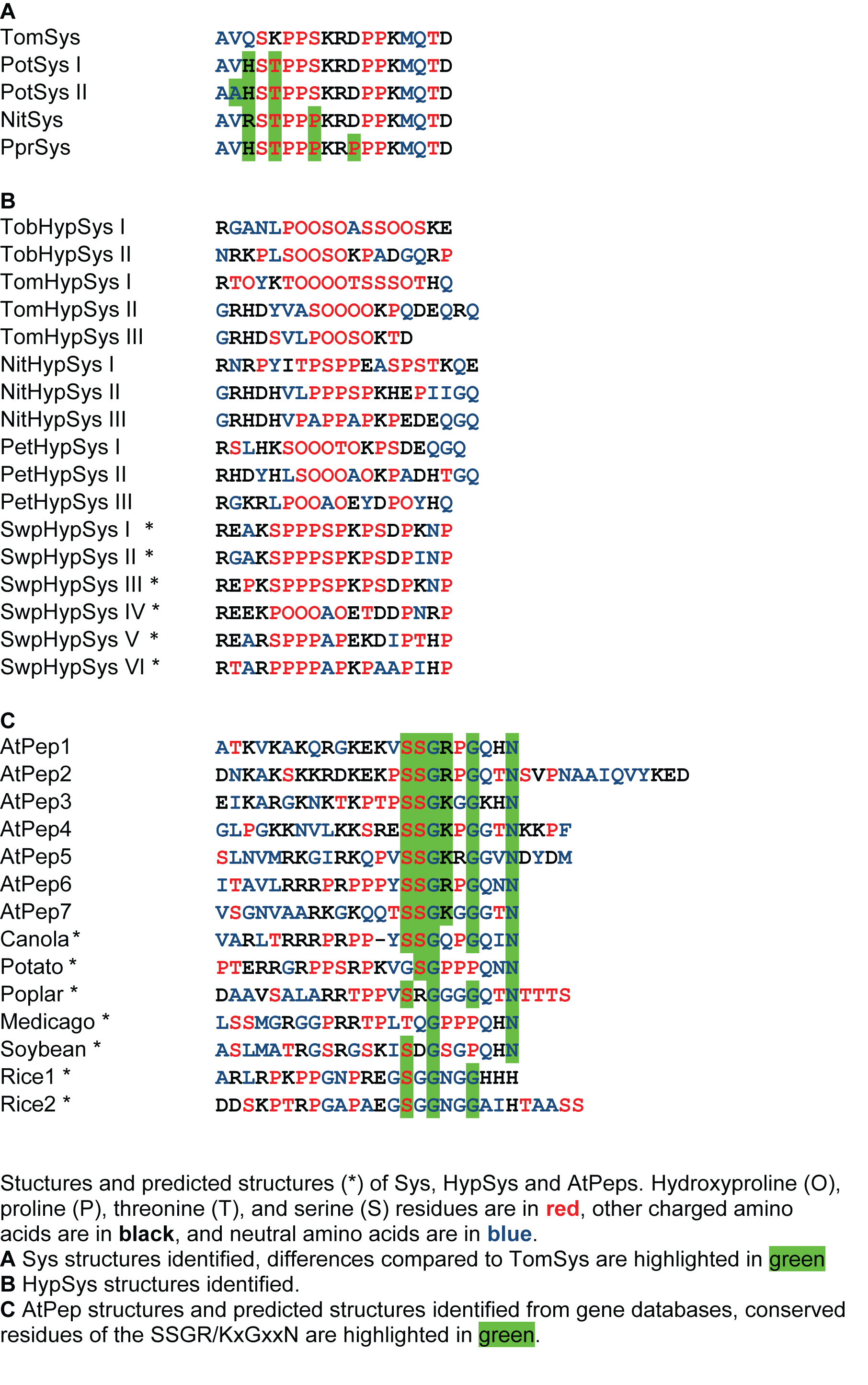 A diagram showing the structures and predicted structures of systemins and other related peptides. Information from: C. P. Constabel et al., Prosystemin from potato, black nightshade, and bell pepper. primary structure and biological activity of predicted systemin polypeptides, Plant Molecular Biology 36 (1998), pp. 55–62 C.A. Ryan and G. Pearce, Systemins: A functionally defined family of peptide signal that regulate defensive genes in Solanaceae species, Proceedings of the National Academy of Sciences of the United States of America 100 (2003), pp. 14577-14580 G. Pearce et al., Isolation and characterization of hydroxyproline-rich glycopeptide signals in black nightshade leaves, Plant Physiology 150 (2009), pp. 1422-1433 G. Pearce et al., Three hydroxyproline-rich glycopeptides derived from a single petunia polyprotein precursor activate defensin I, a pathogen defense response gene, The Journal of Biological Chemistry 282 (2007), pp. 17777–17784. Y.C. Chen et al., Six peptide wound signals derived from a single precursor protein in Ipomoea batatas leaves activate the expression of the defense gene sporamin, Journal of Biological Chemistry 283 (2008), pp. 11469-11476 J. Narvaez-Vasquez and M. L. Orozco-Cardenas. Systemins and AtPeps: Defense-related peptide signals, (2008) Chapter 15 Induced Plant Resistance to Herbivory. ISBN: 978-1-4020-8181-1 A. Huffaker et al., An endogenous peptide signal in Arabidopsis activates components of the innate immune response, Proceedings of the National Academy of Sciences of the United States of America 103 (2006), pp. 10098-10103